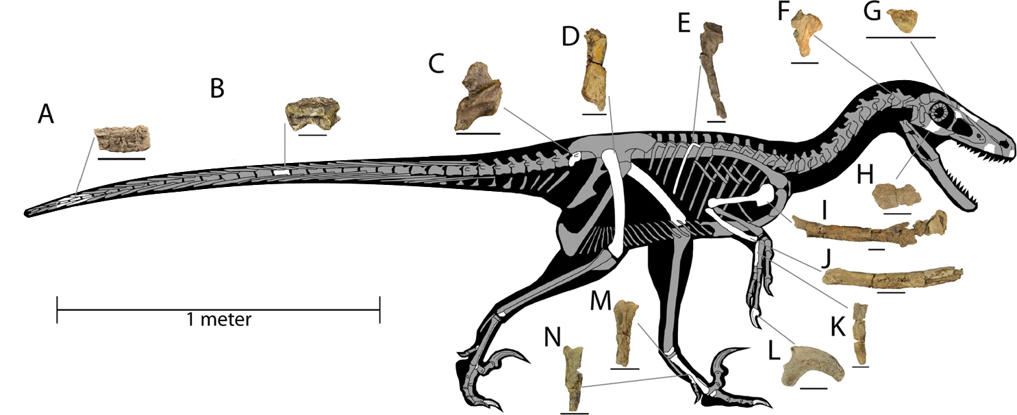 Skeletal reconstruction of Dineobellator notohesperus gen. et sp. nov., SMP VP-2430, with known elements colored in white. Figured bones are as follows: fused distal caudal vertebra (A); middle caudal vertebra (B); caudal vertebra 1 (C); right femur (D); rib (E); right basipterygoid (F); left lacrimal (reversed) (G); right jugal (H); right humerus (I); right ulna (J); right metacarpal III (K); right manual ungual II (L); right metatarsal II (M); right metatarsal III. (N) Individual scale bars, 2 cm. Skeletal drawing based off work of Scott Hartman.